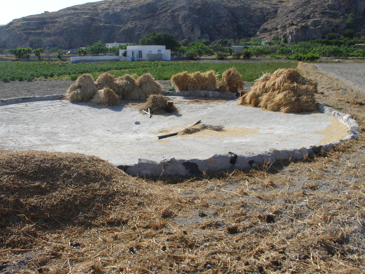 Threshing place. The circle is made from concrete. Harvested straw is put on the concrete surface and a donkey is made to walk on it in circles, which causes the process of threshing. On the left (front of the picture) visible leftovers (mostly tailings and chaff). Around the perimeter there is some threshed straw. On the floor there are some threshed grains. Photo taken near Vlyhada (Santorini, Greece).